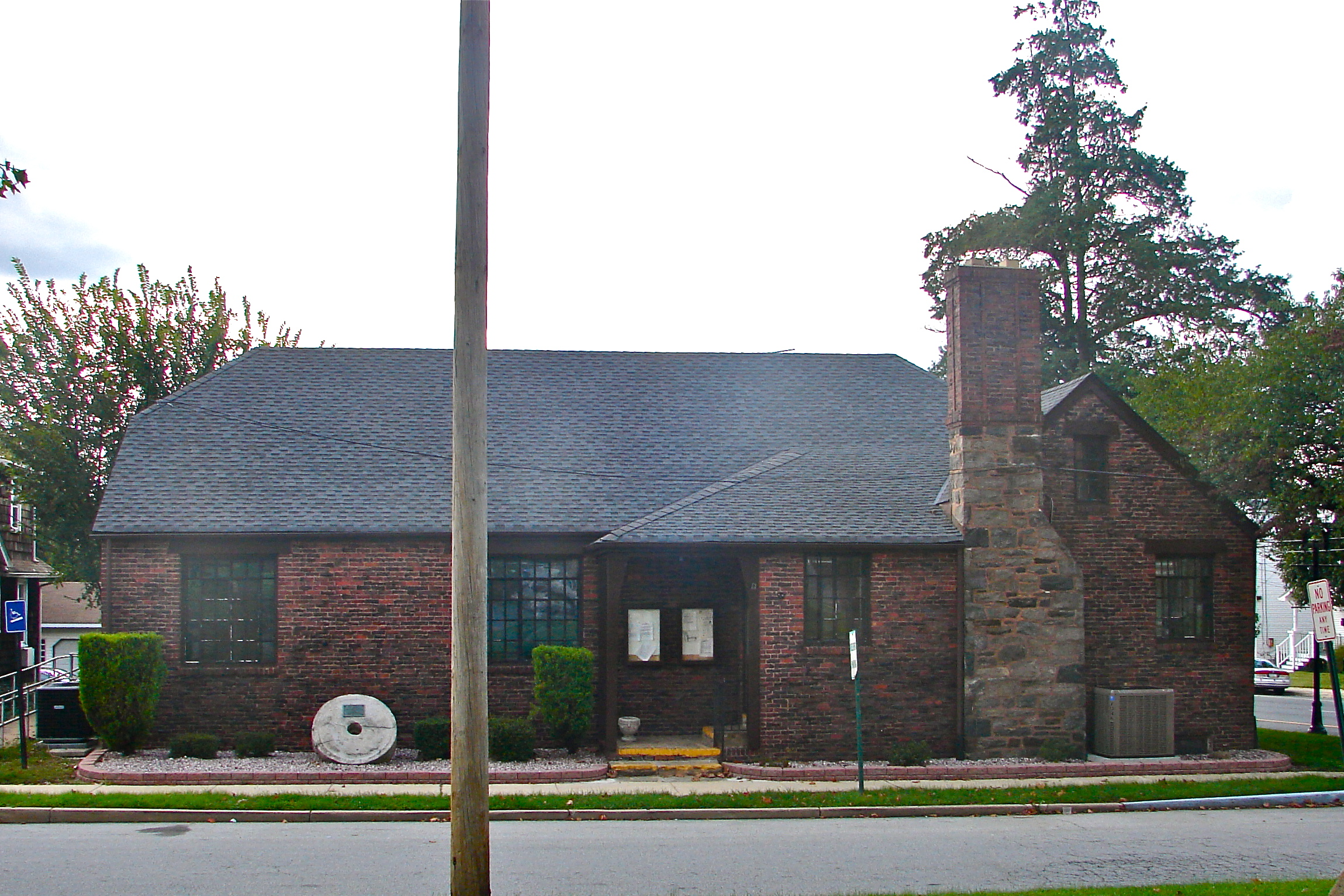 Woman's Club of Newport on the NRHP since July 14, 1993. At 15 N. Augustine St. in Christiana Hundred, Newport, Delaware. Also previously used as the town hall.